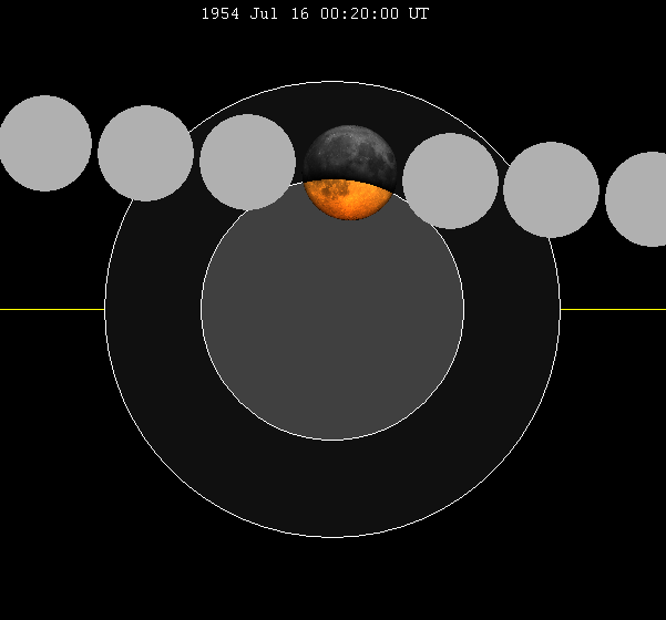 July 1954 lunar eclipse chart of moon's path through the earth's shadow. thumb